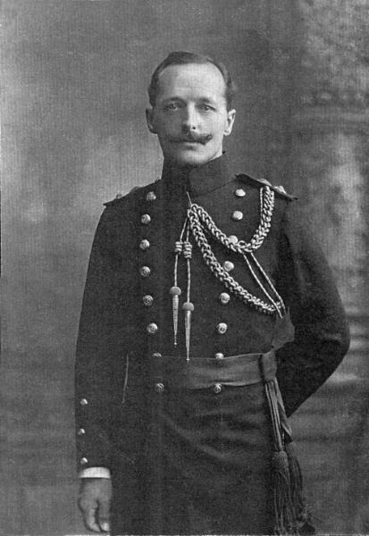 Wilfred Malleson